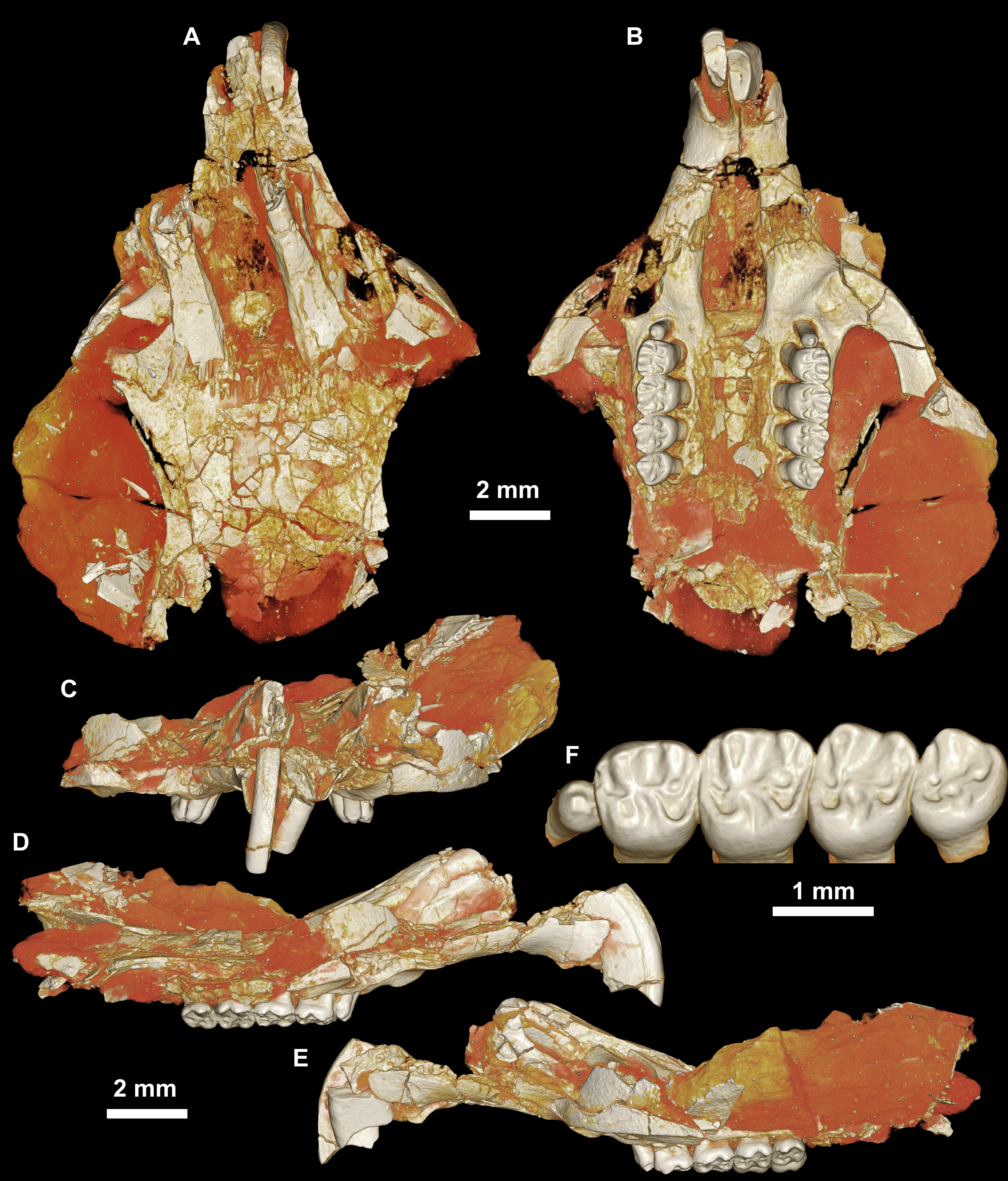 Birkamys, cranium of Birkamys korai CGM 66000, holotype, high-resolution micro-CT scans; A: dorsal view, B: ventral, C: anterior, D und E: lateral views, F: occlusal surface of the upper teeth; locality L-41, Jebel Qatrani Formation, Fayum, northern Egypt, latest Eocene